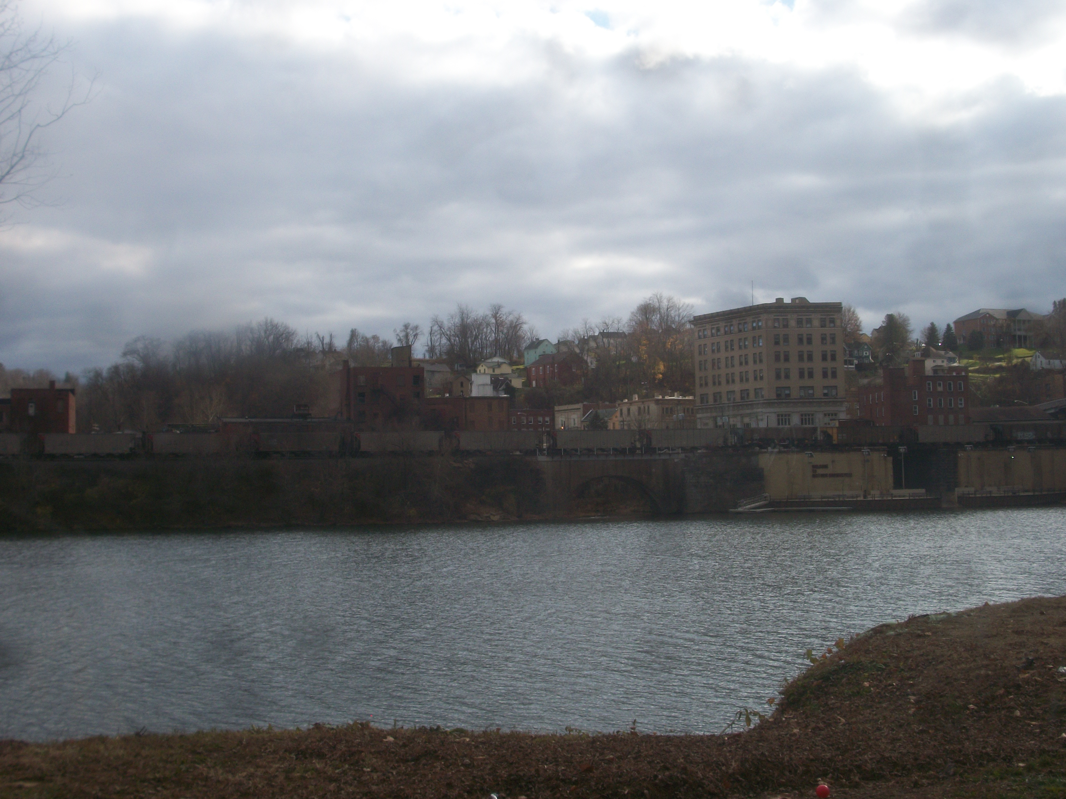 View of Brownsville from across the Monongahela River.